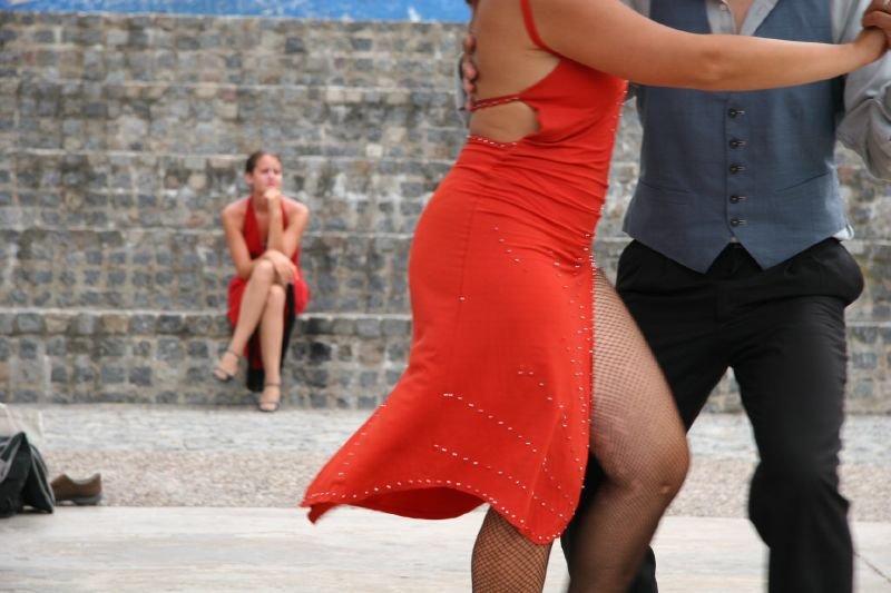 Photo of a couple dancing the Tango.